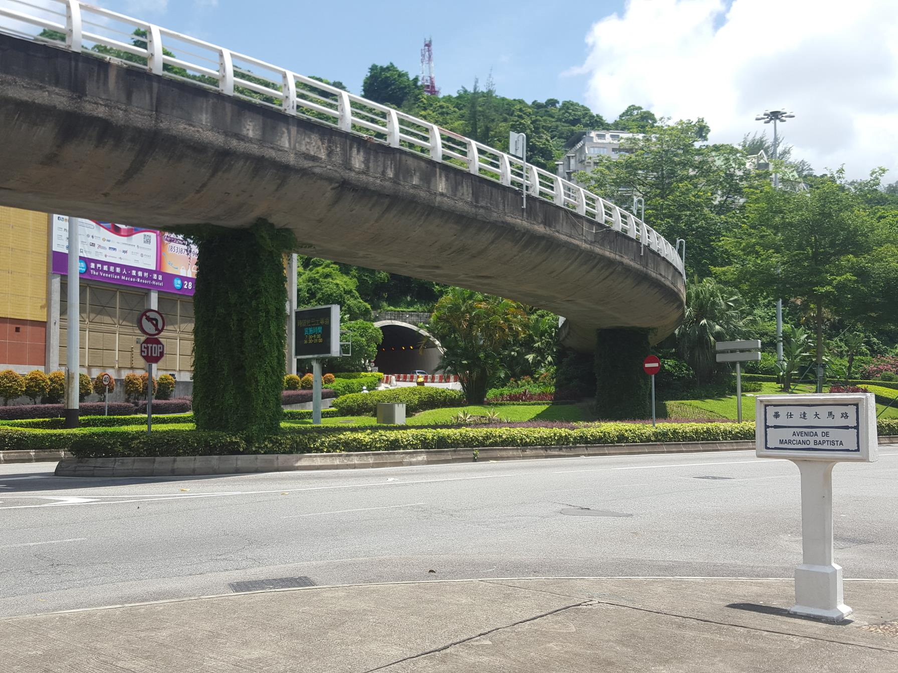 Tunnel of Guia mountain in NAPE